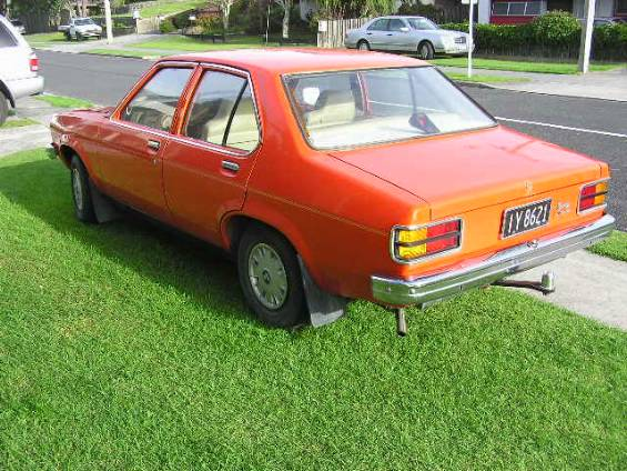 1976–1978 Holden LX Sunbird sedan. Note that the Holden Sunbird did not carry the Torana name.